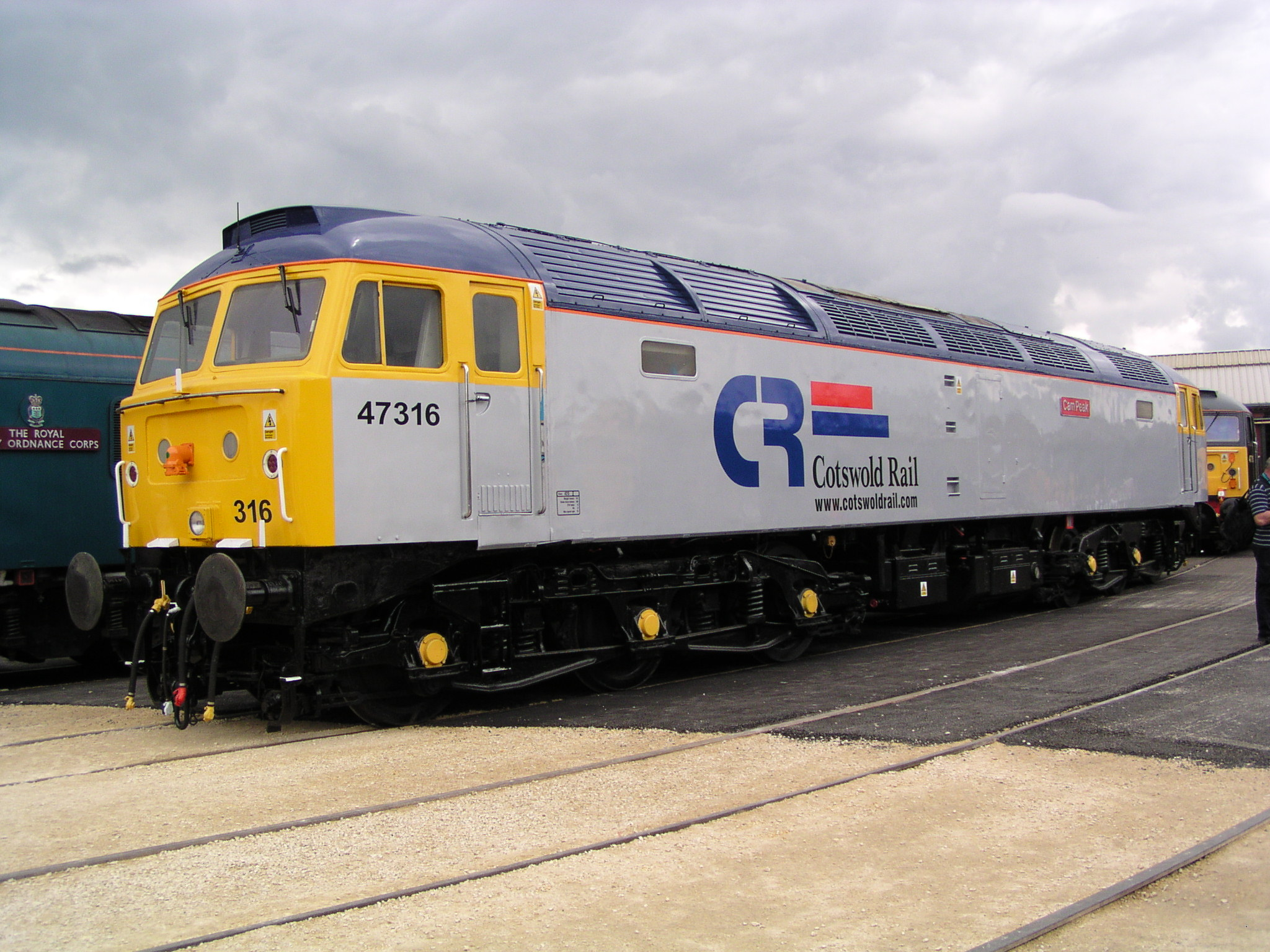 BR Class 47, no. 47316 'Cam Peak' at Doncaster Works on 27th July 2003.